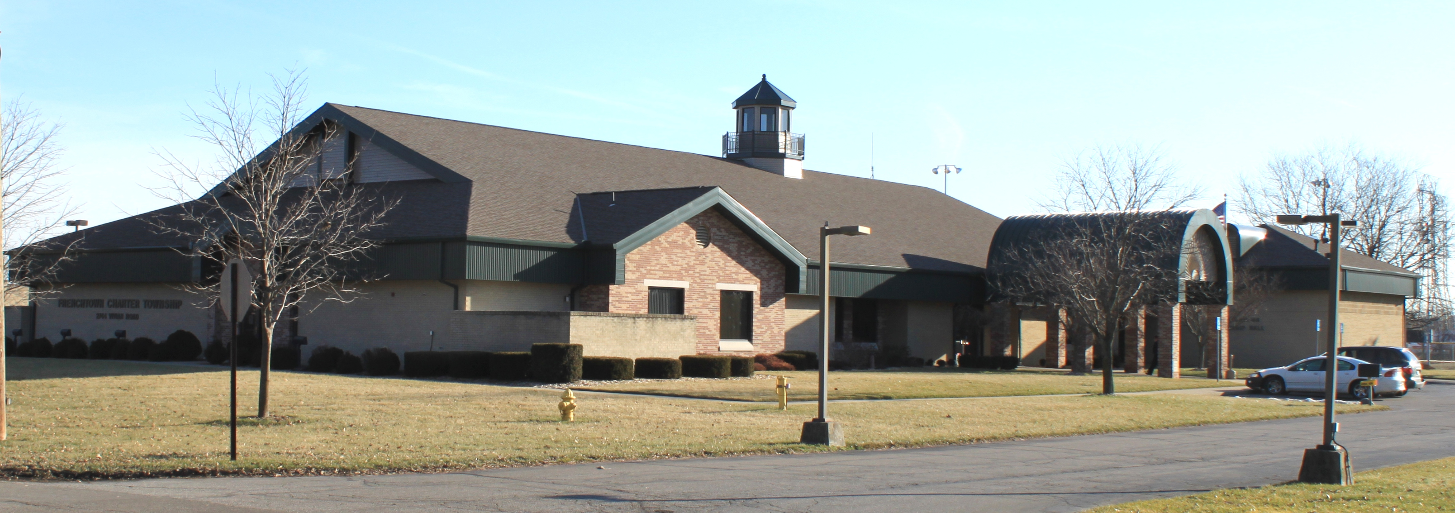 Frenchtown Township Hall, 2744 Vivian Road, Frenchtown Township, Michigan